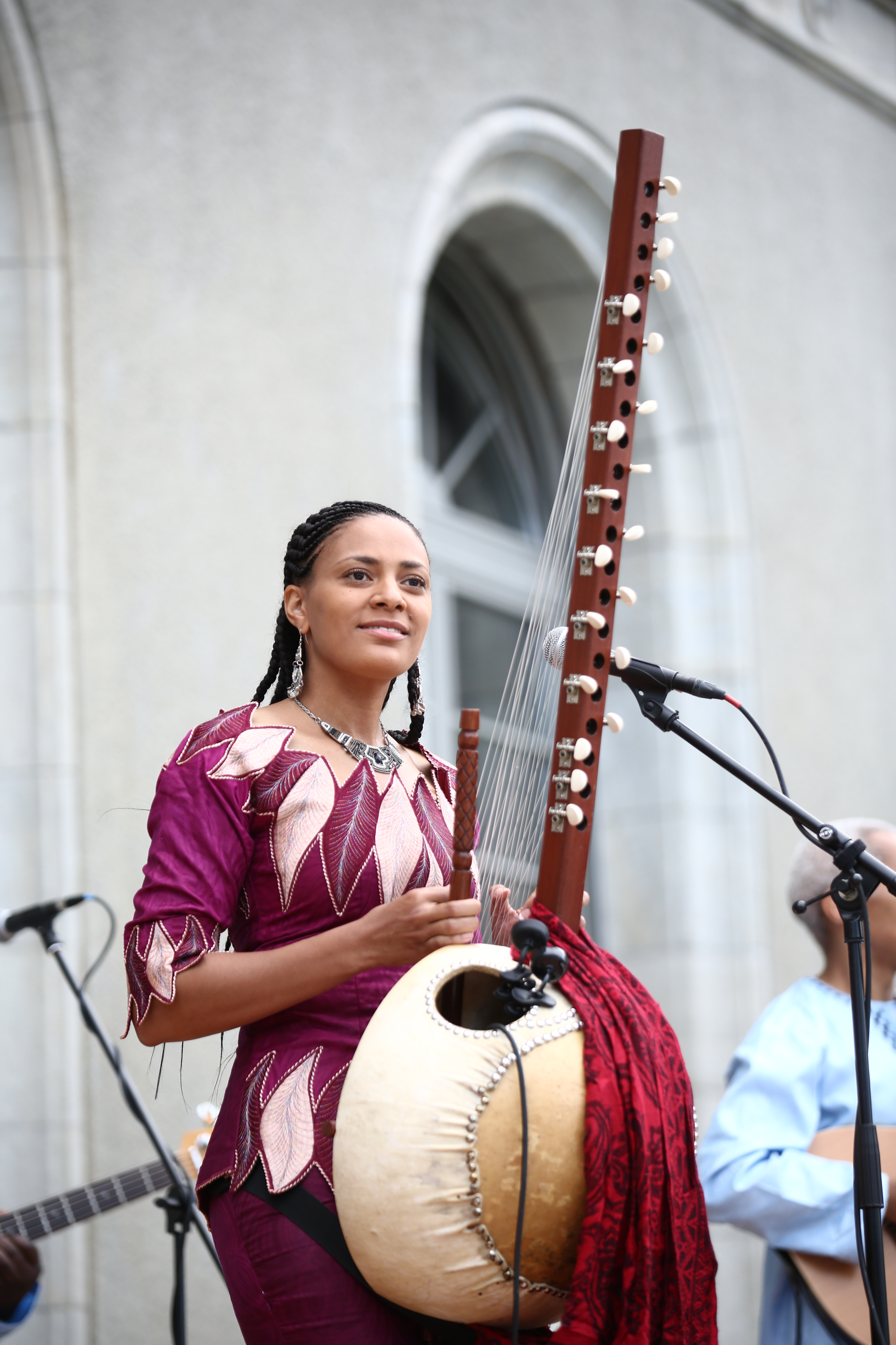 Photos from the WTO Aid for Trade Global Review 2017 photo gallery may be reproduced provided attribution is given to the WTO and the WTO is informed. Photos: © WTO/Jay Louvion